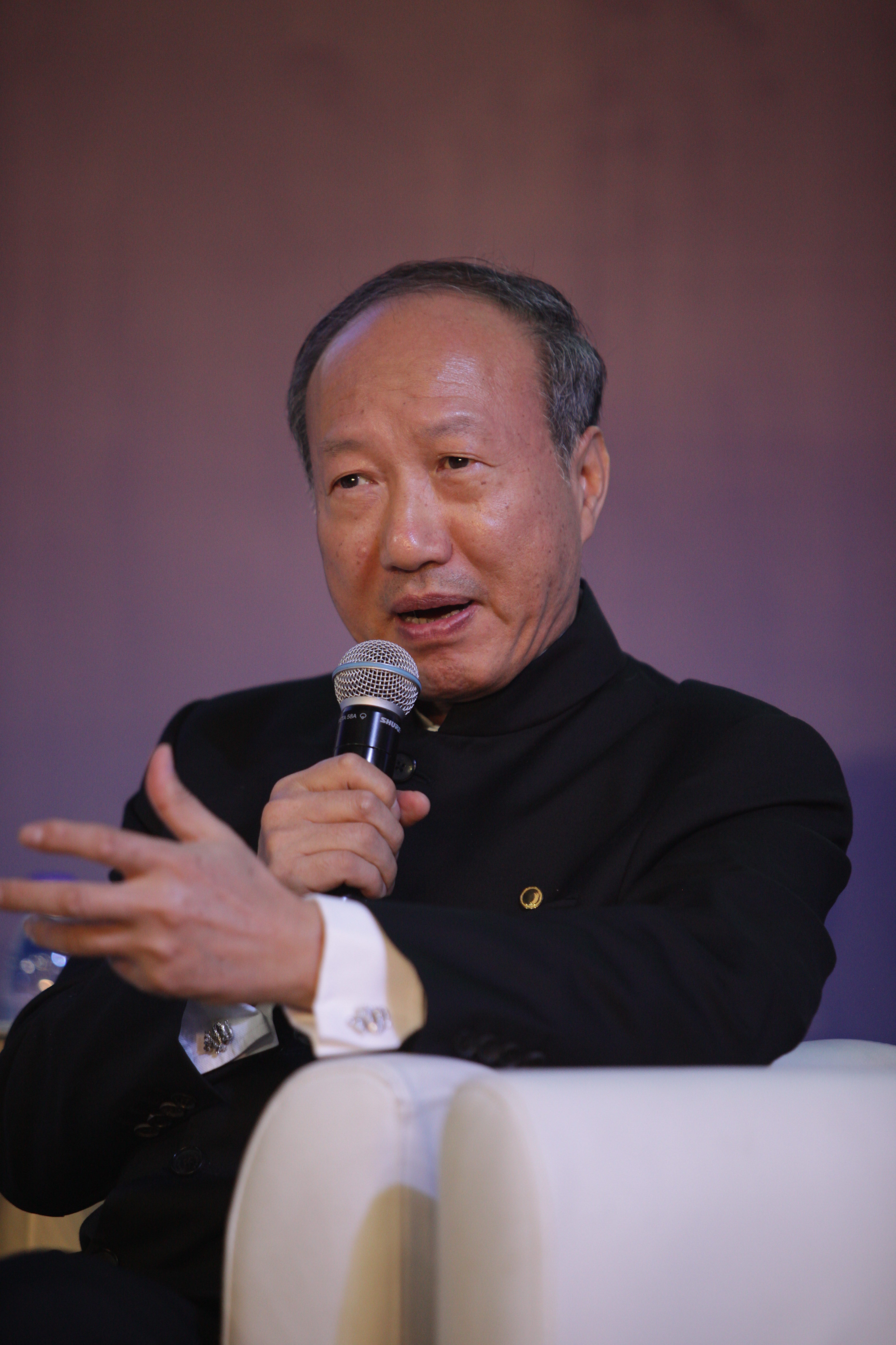 CHEN Feng, Chairman of the Board, HNA GROUP World Travel & Tourism Council Flickr images